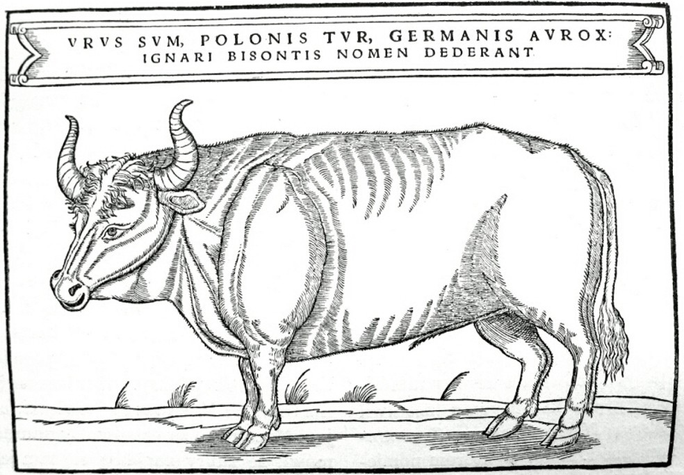 Aurochs illustration from Sigismund von Herberstein's book published in 1556 captioned "I'm 'urus', tur in Polish, aurox in German (dunces call me bison)"; Latin original: Urus sum, polonis Tur, germanis Aurox: ignari Bisontis nomen dederant